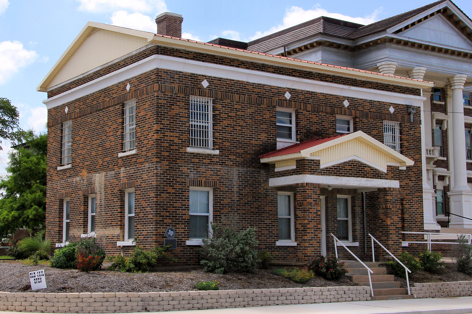 The former Montague County Jail in Montague, Texas, United States. The jail was designated a Recorded Texas Historic Landmark in 1991.